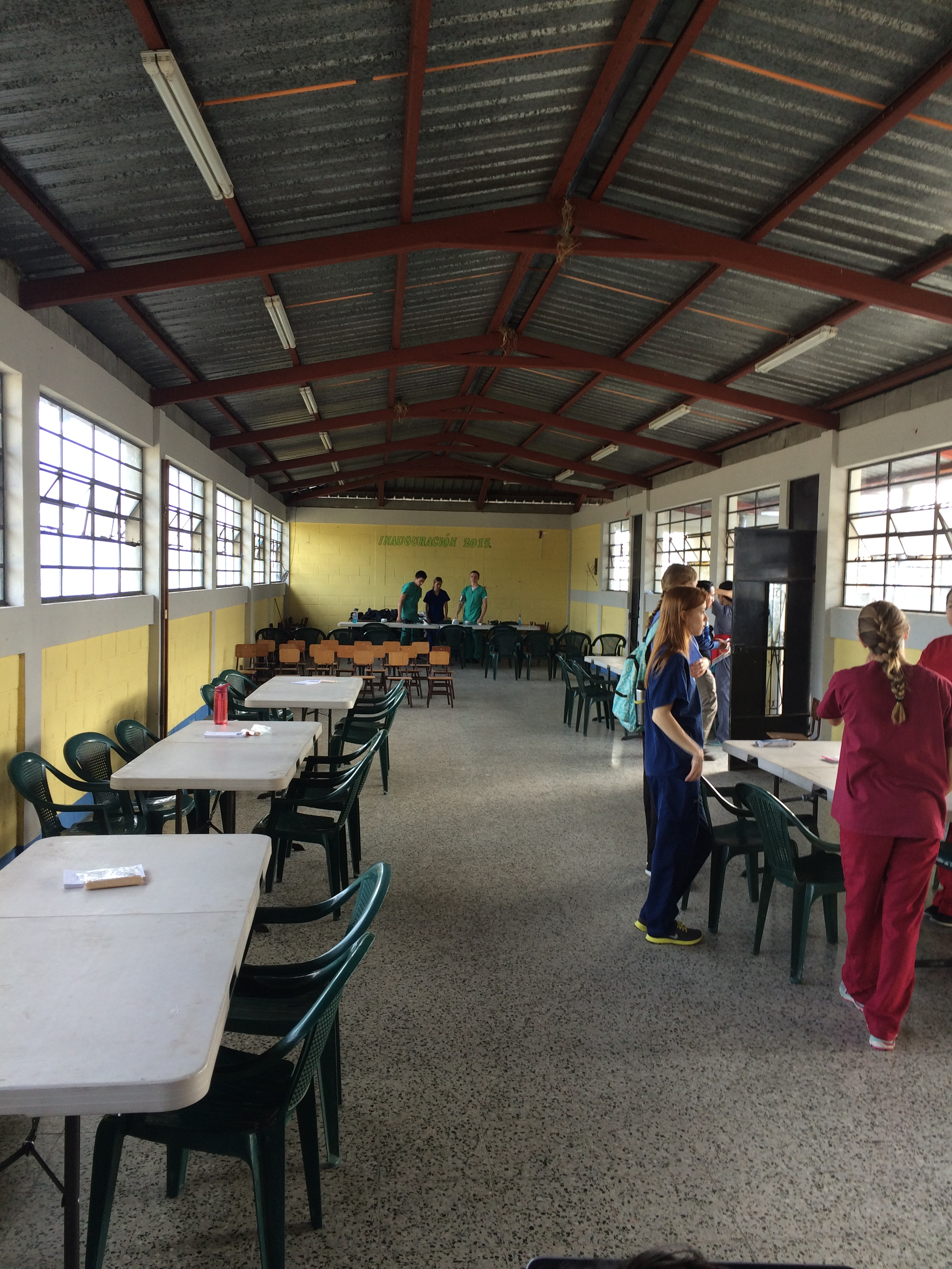 This is an image of a mobile clinic setup in San Pedro la Laguna, Guatemala